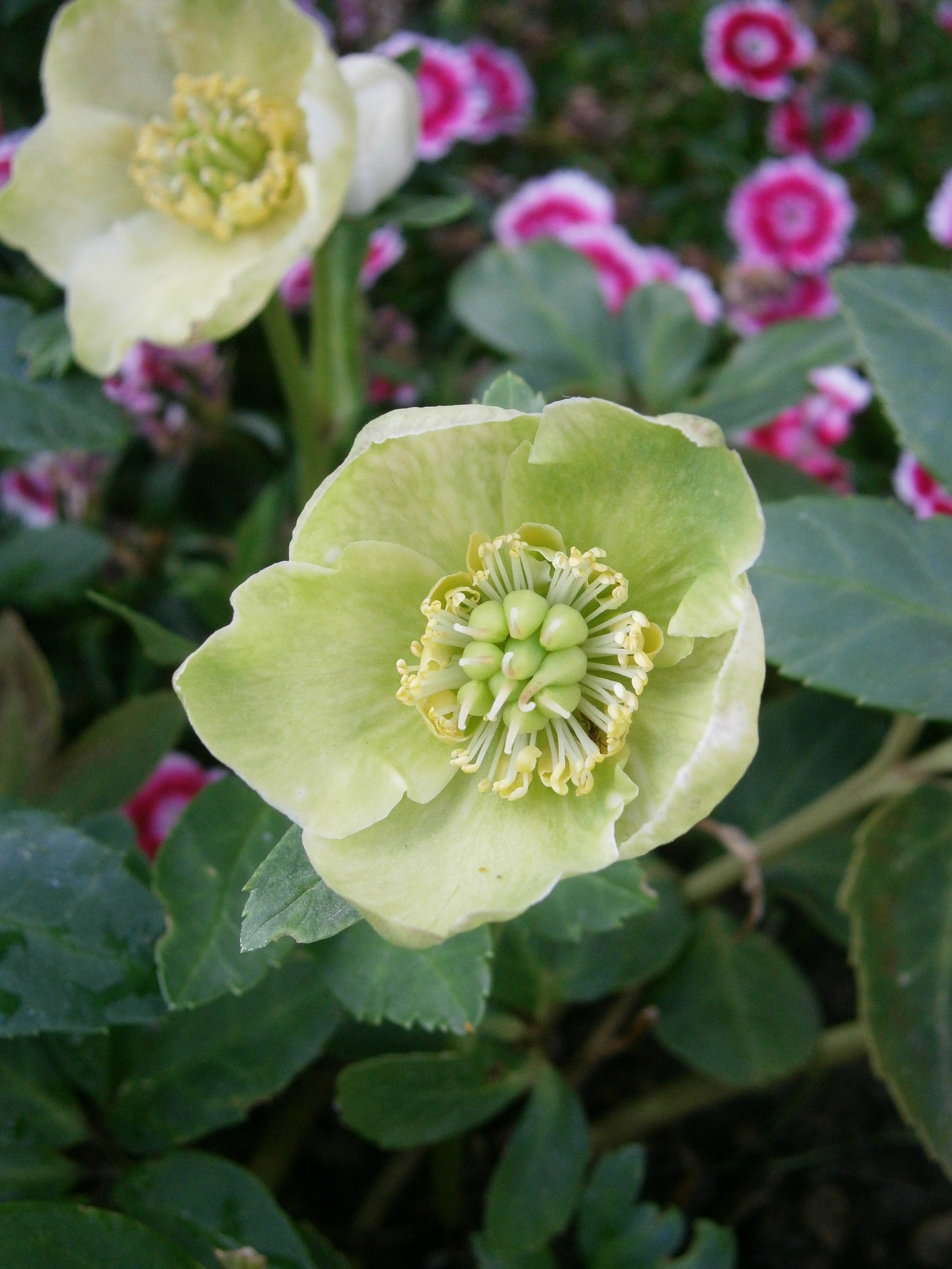 Helleborus niger - erratic flowering